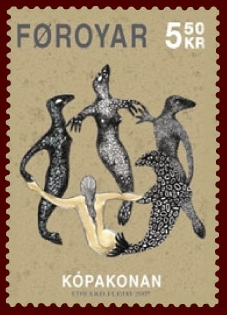 Stamp FO 579 of the Faroe Islands: The Seal Woman (kópakonan)